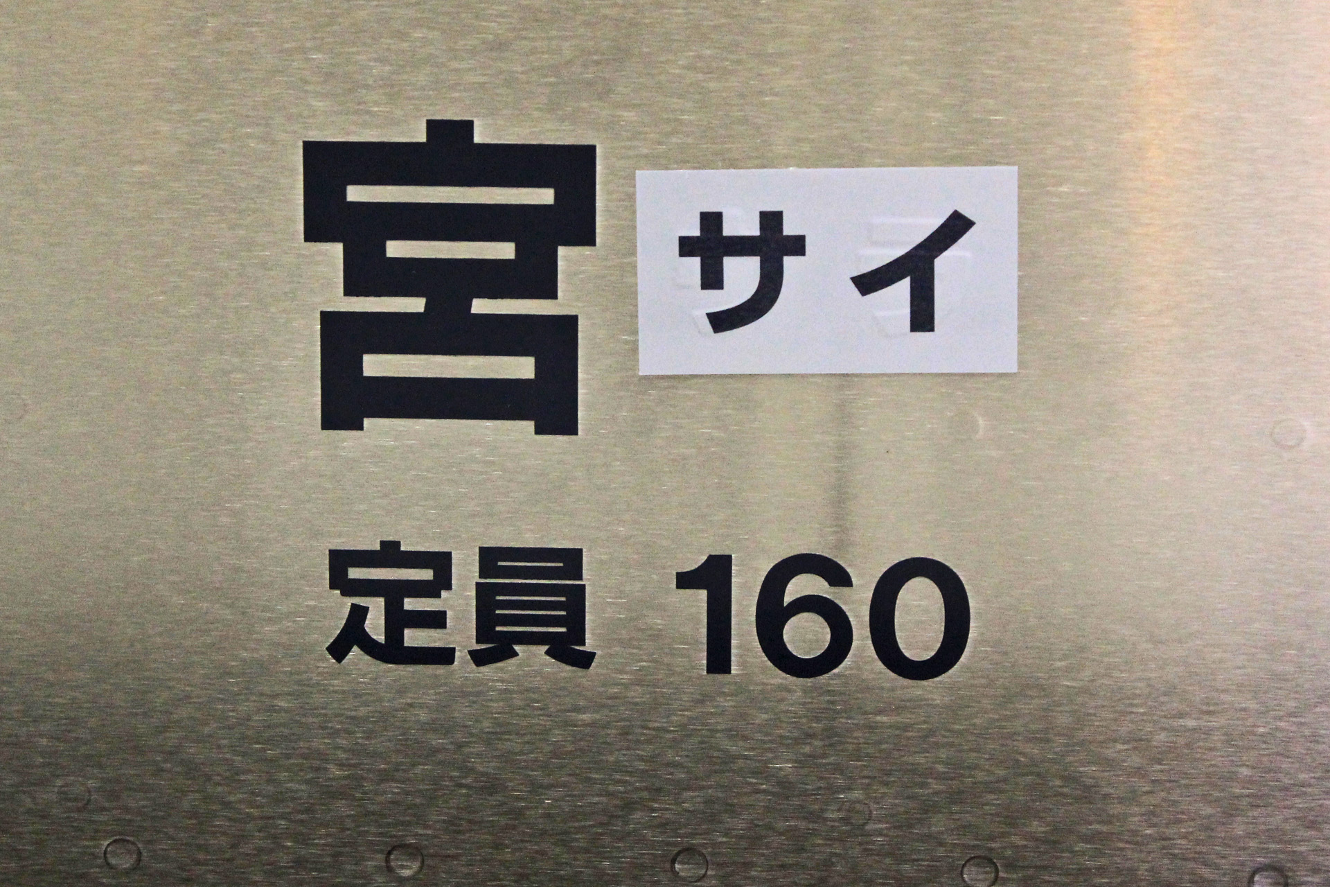 Symbol of JR East Saitama Rolling Stock Center, marked on its rolling stock